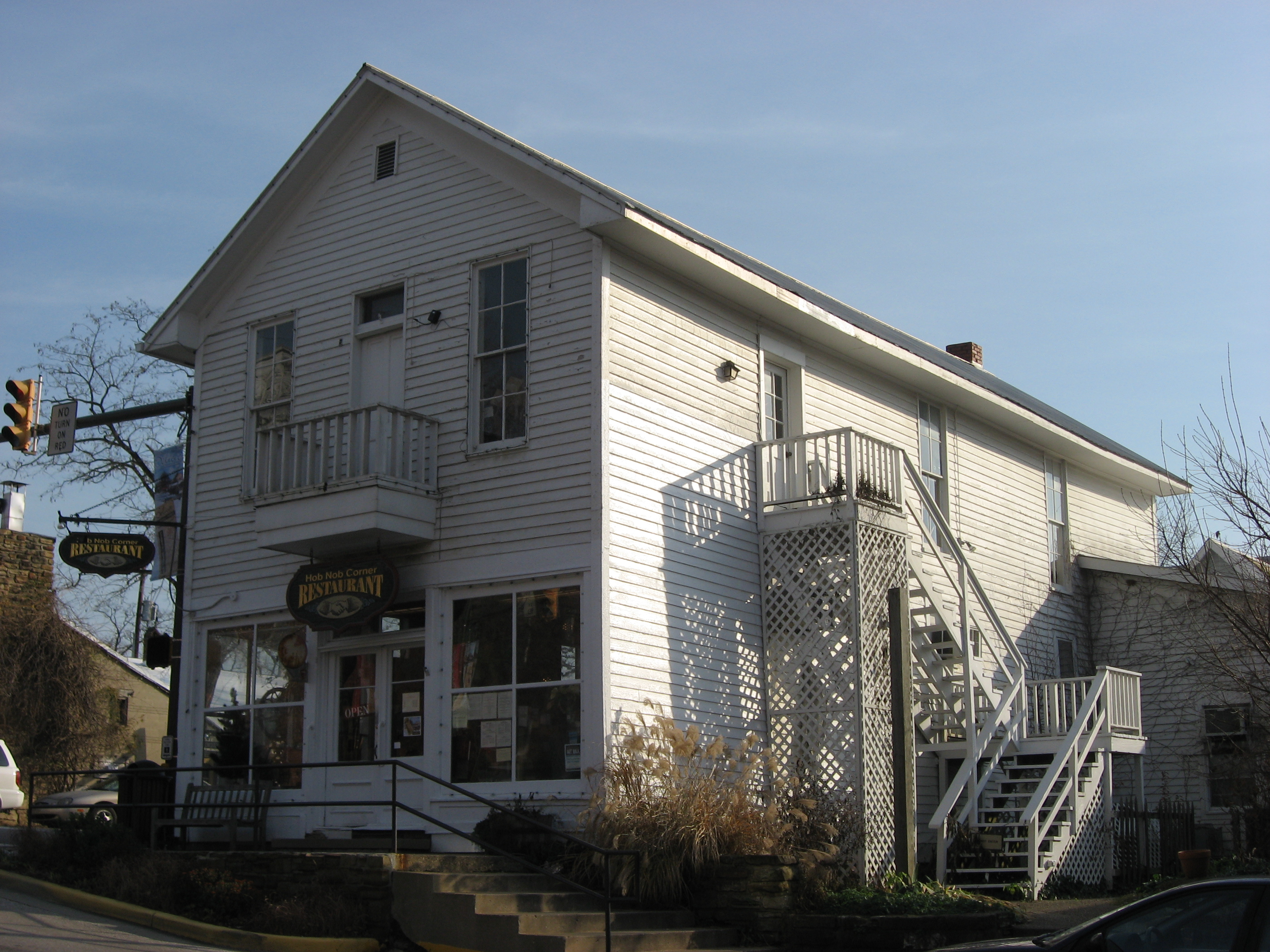 Front and western side of the F.P. Taggart Store, located on the southwestern corner of the intersection of Van Buren (State Road 135) and Main Streets in downtown Nashville, Indiana, United States. Built in 1870 and now a restaurant, it is listed on the National Register of Historic Places.